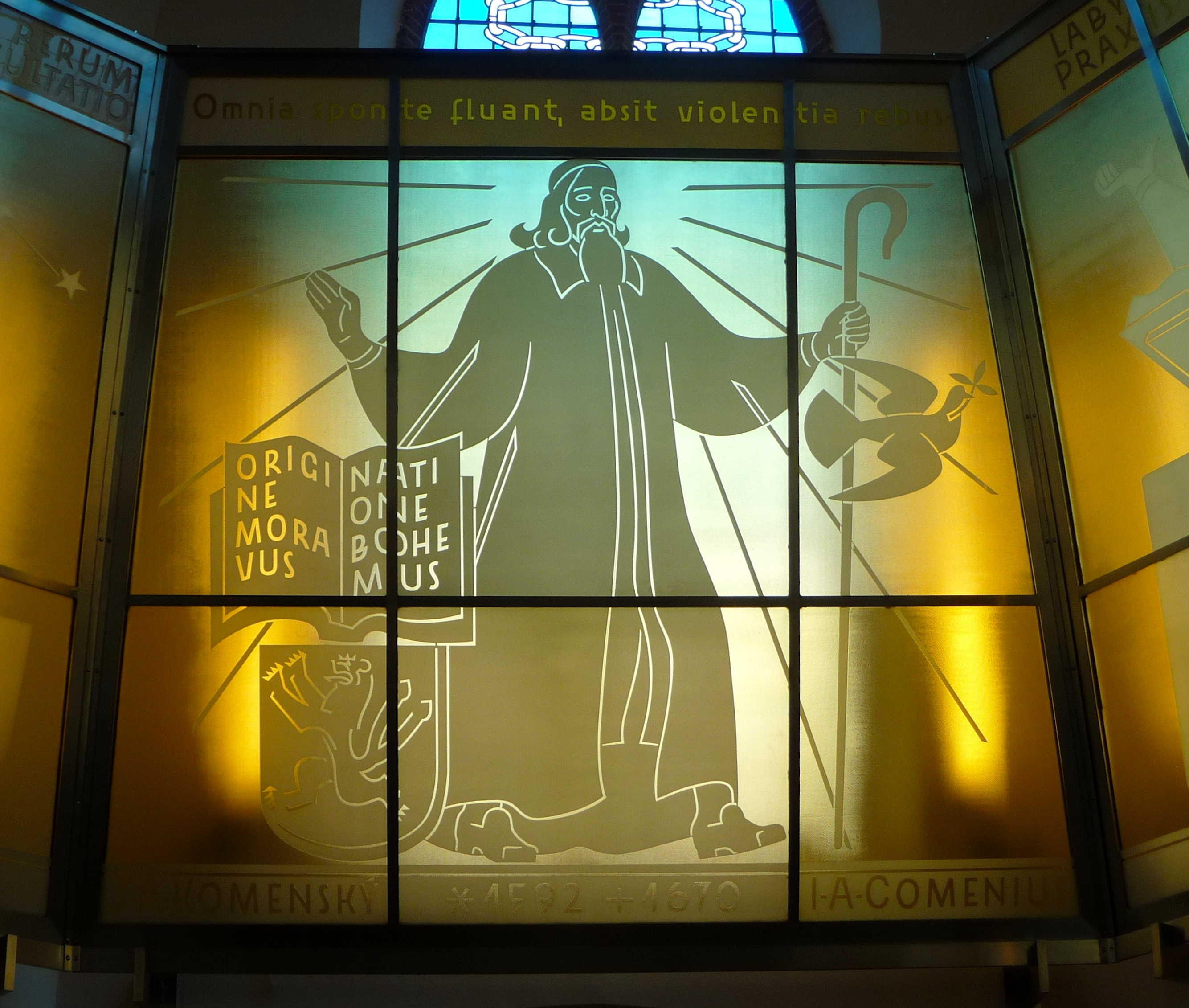 Komenský as a bishop - the fourth glass panel in the Mausoleum of the Museum of Jan Amos Komenský (Comenius) in Naarden (North Holland, the Netherlands).